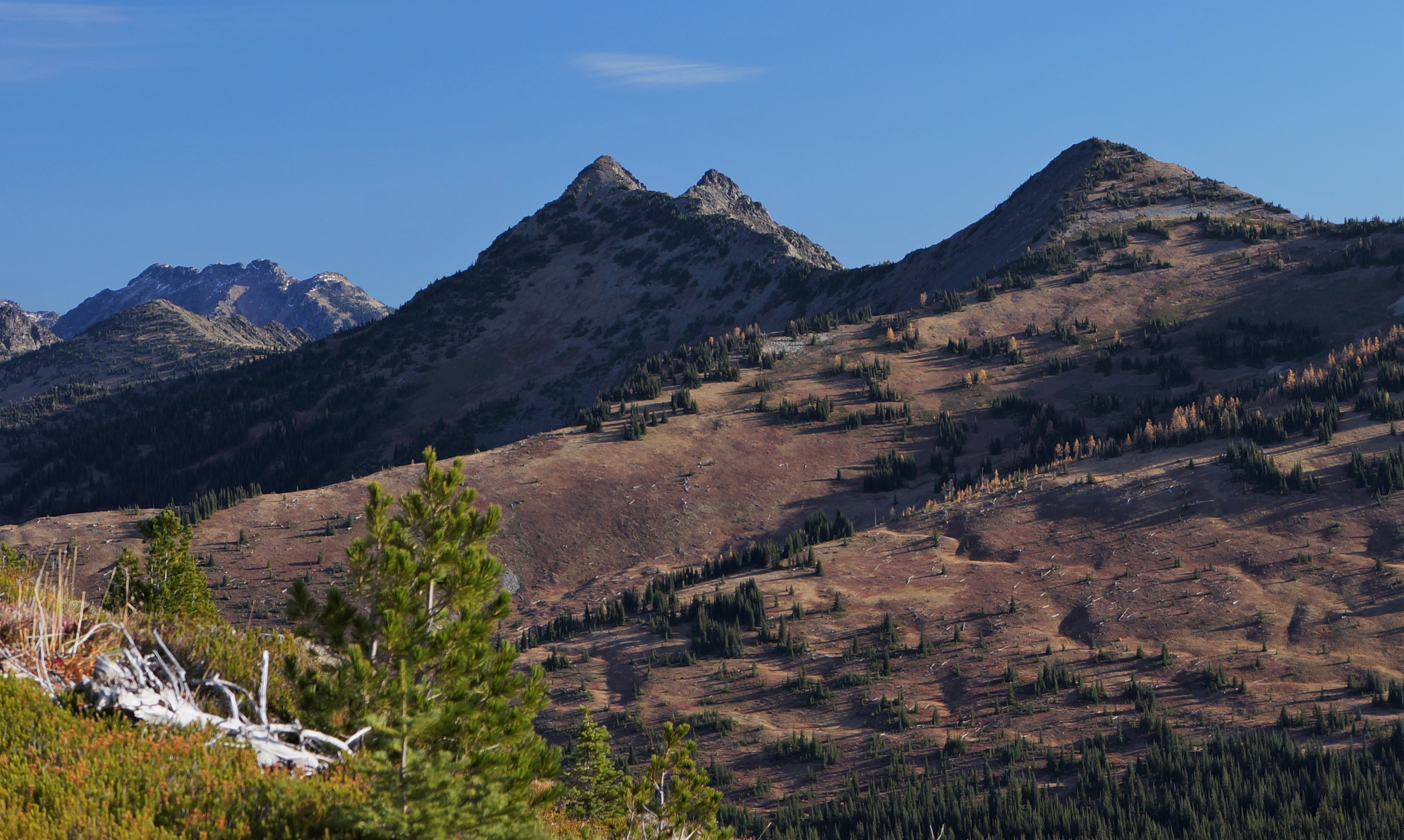 Jackita Ridge and Devils Park from southwest